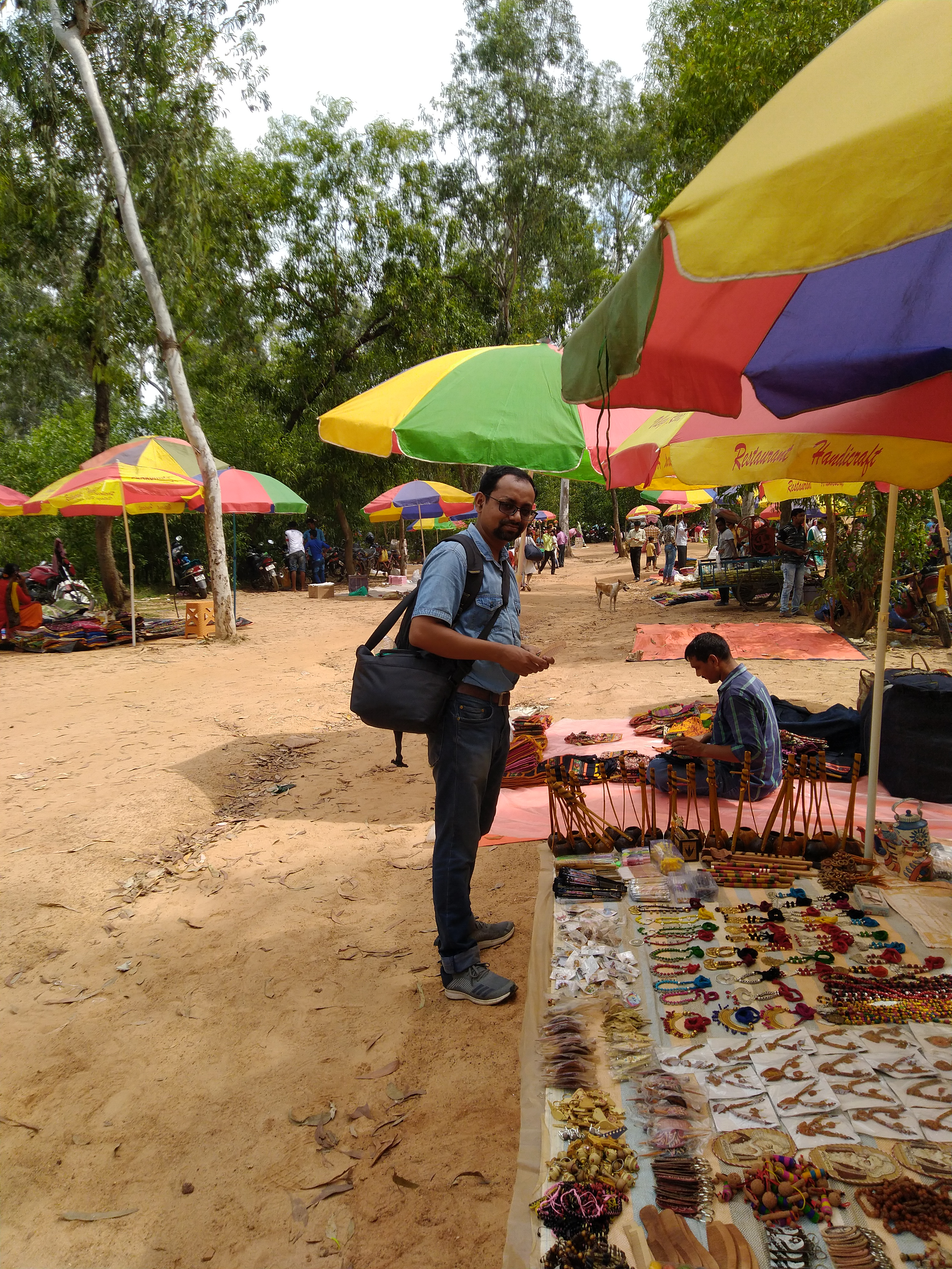 Village Fair